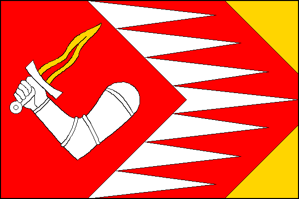 Municipal flag of Vísky village, Blansko District, Czech Republic.